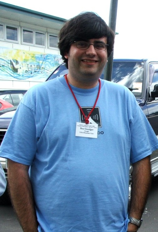 Ben Goodger